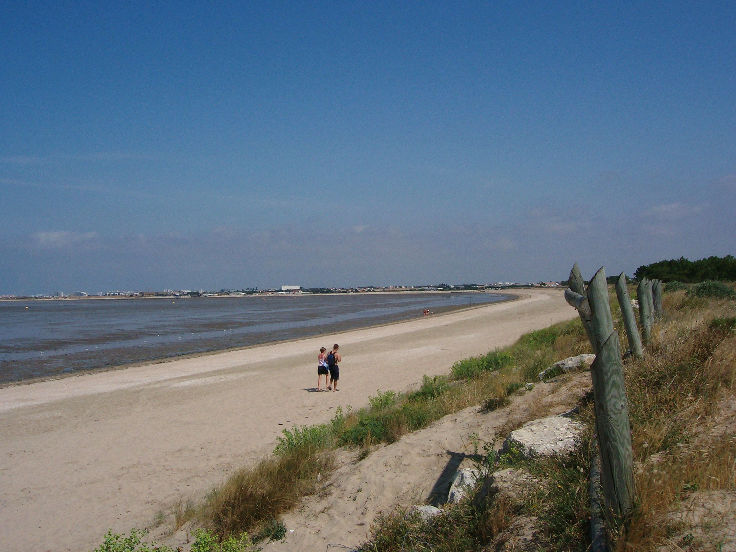 Beach of Aytré, Charente-Maritime